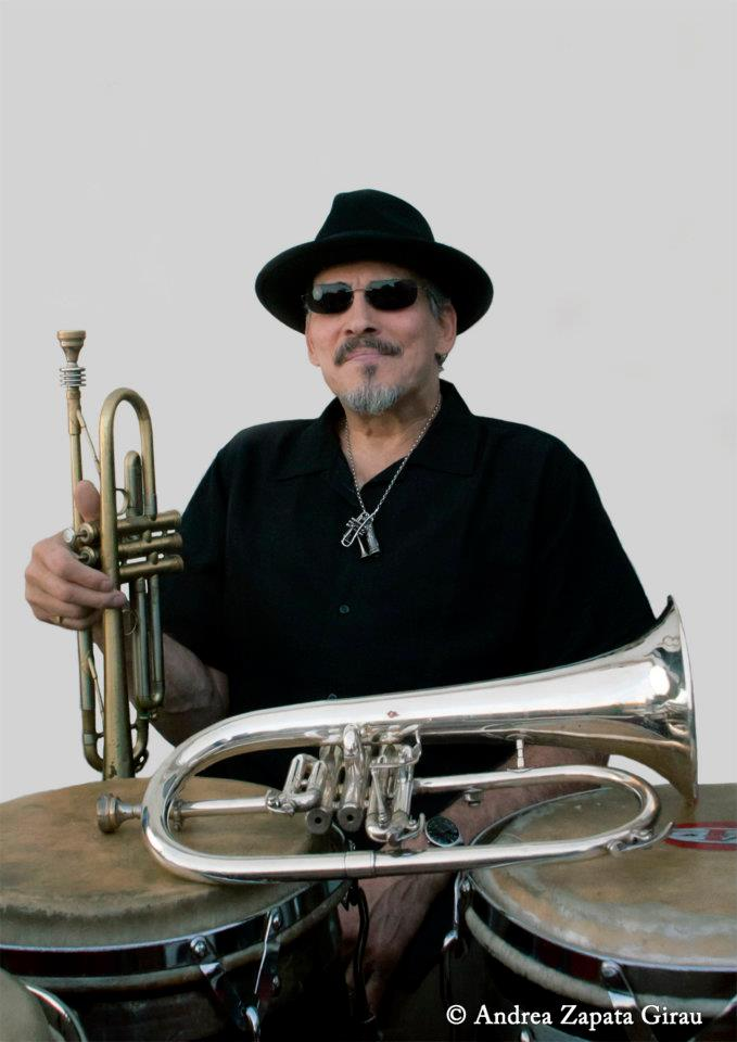 Jerry Gonzalez in 2012